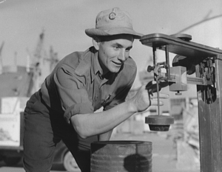 Baseball players in war production. Outfielder Vince DiMaggio, of the Pittsburgh Pirates, has been working at the California Ship Building Corporation since last October. He's one of the many former athletic stars who are helping to smash the Axis by building the equipment needed by America's fighting men